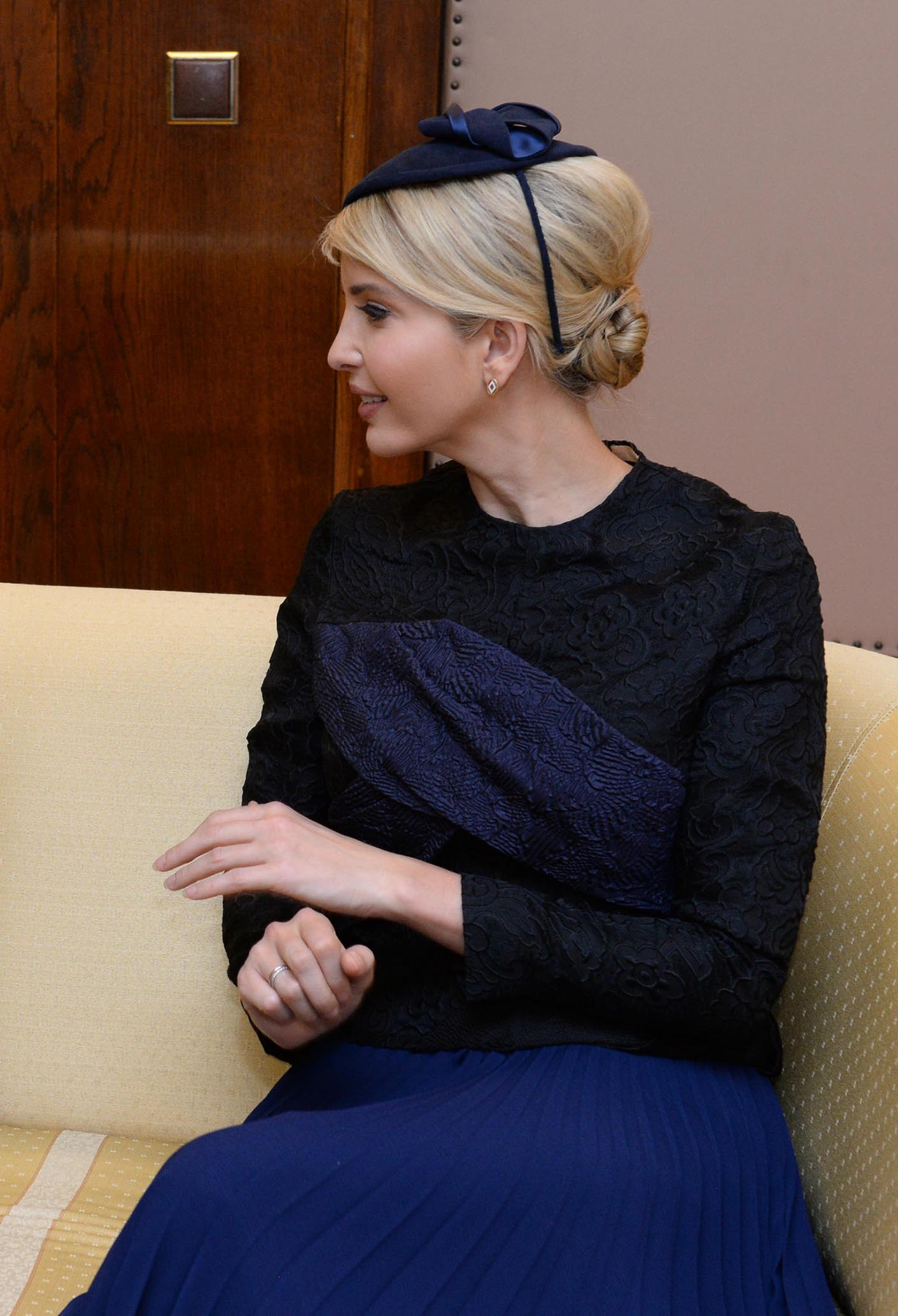 Ivanka Trump in Beit HaNassi, the official residence of the President of Israel in Jerusalem